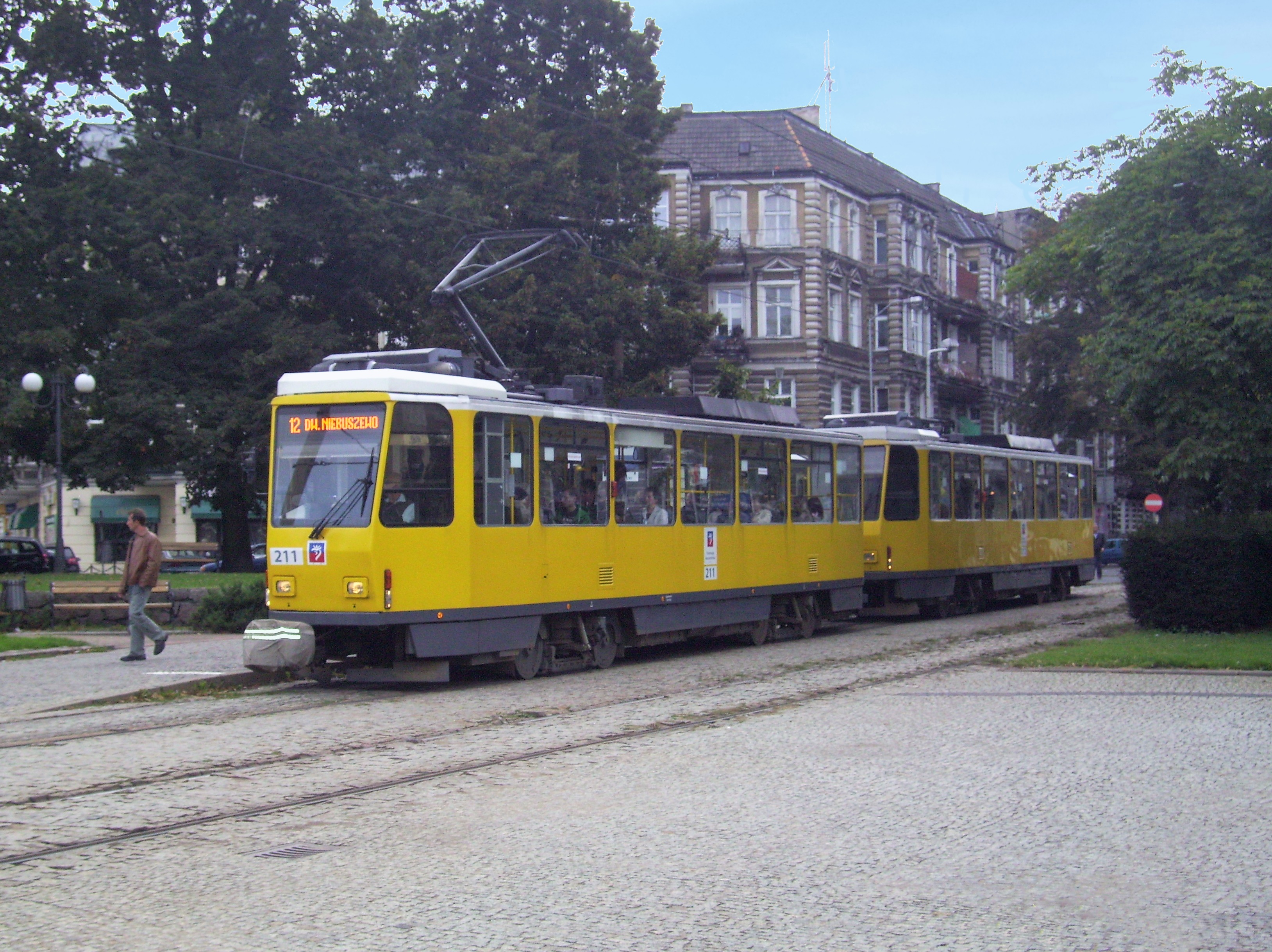 Set of two trams Tatra T6A2D on Grunwaldzki Square in Szczecin, 2009